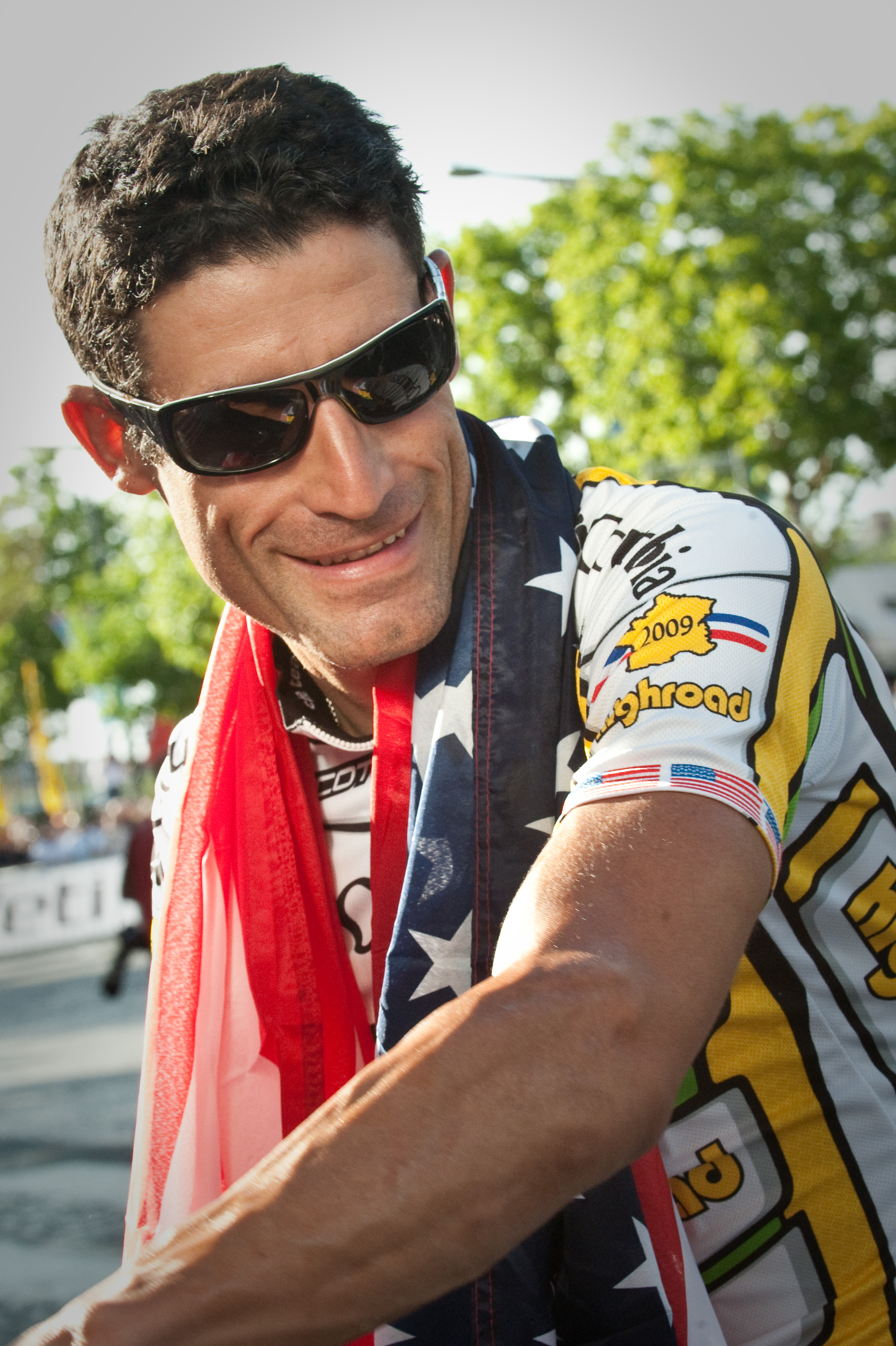 American cyclist George Hincapie in Paris, during the 2009 Tour de France.